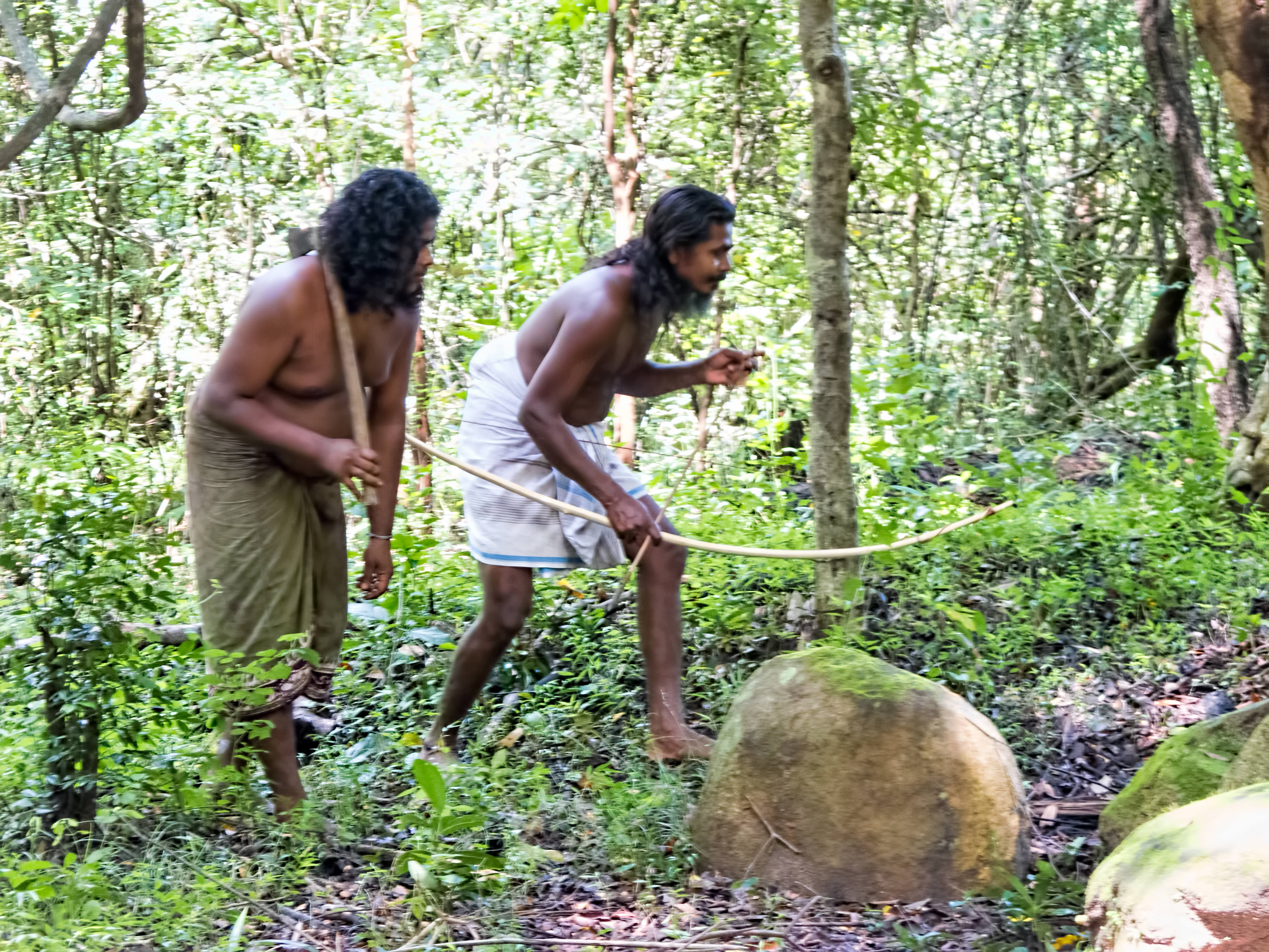 A Veddah demonstrates how to start a fire without matches while his compatriots set up shop. The bottles contain wild-bee honey. The Veddahs (Hunters) are thought to have arrived in Sri Lanka 18,000 years ago. Today there are about 2,500 Veddahs. They no longer hunt for food as that is prohibited by the government. We see just a handful of Veddahs, all men. On Google Earth: Veddah village 7°24'39.56"N, 81° 6'54.42"E